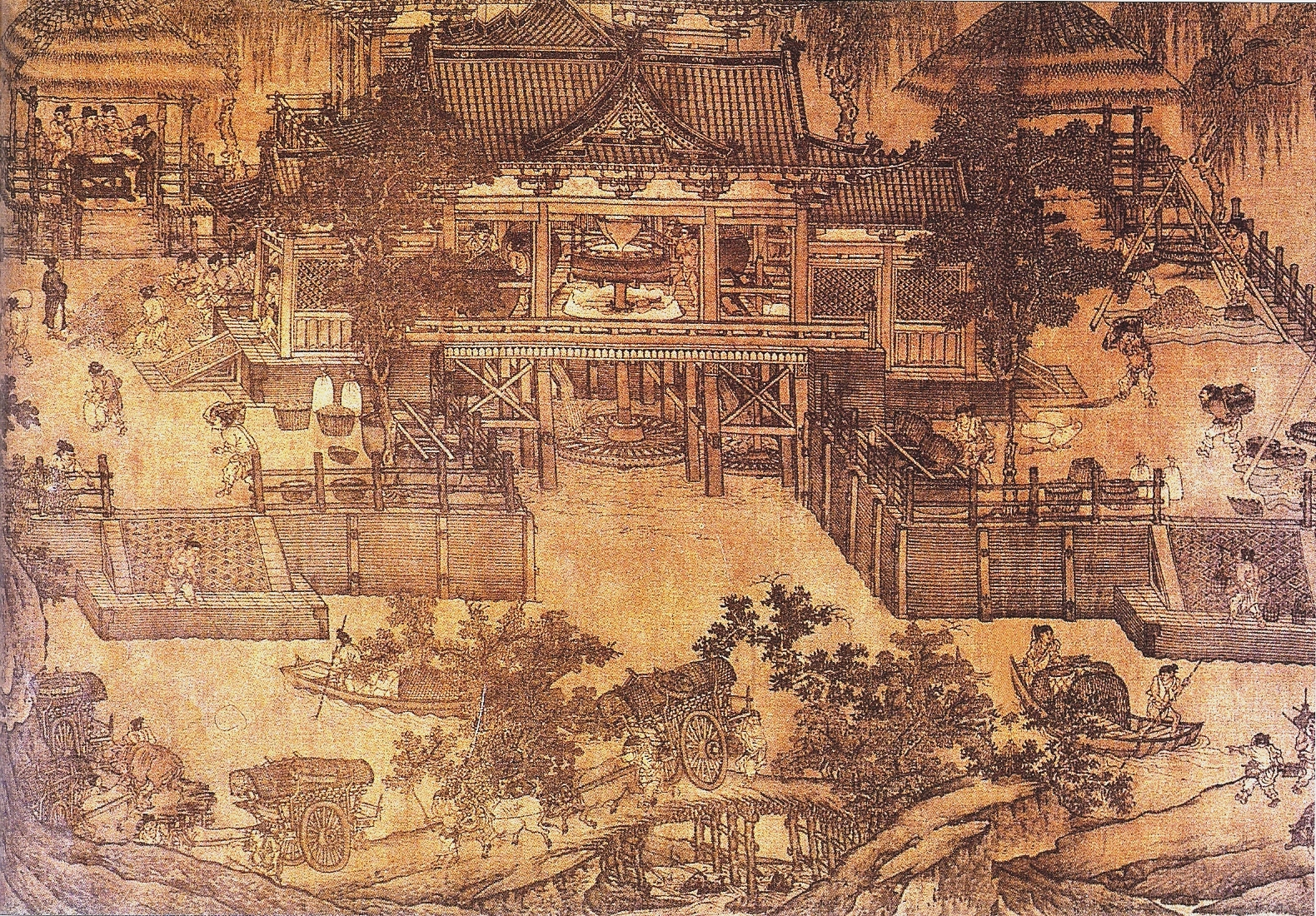 A Northern Song Dynasty (960-1127) era Chinese painting of a water-powered mill for grain, with surrounding river transport.